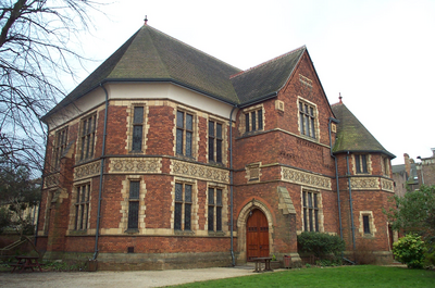 Oxford Union, 2004-02-28. Copyright © Kaihsu Tai. Category:Images of Oxford